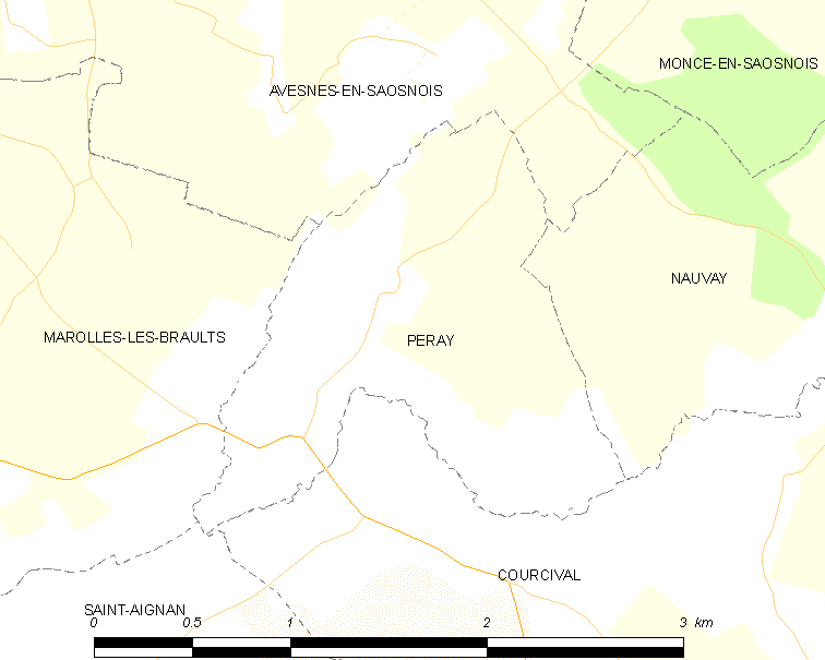 Map of French municipality